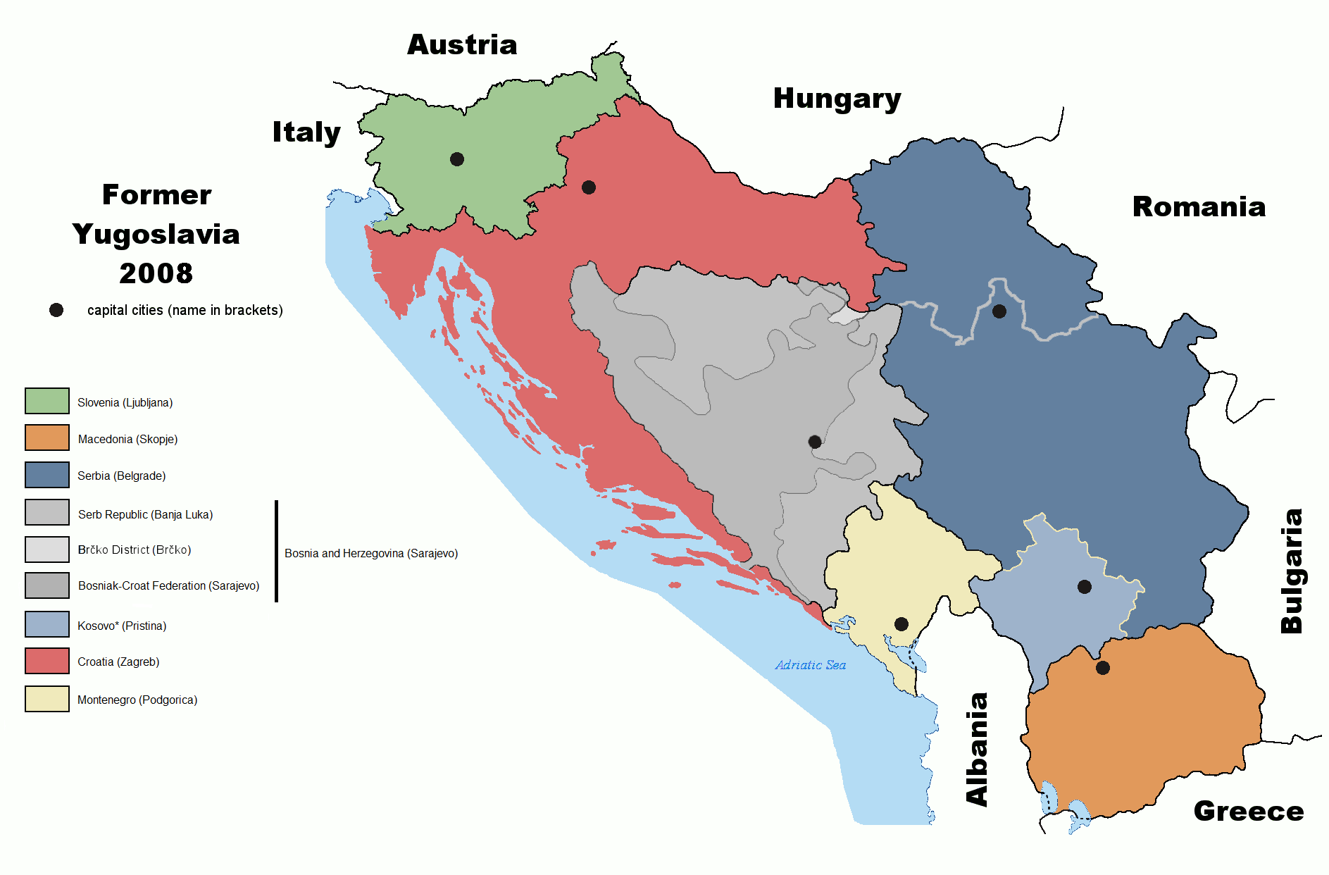 Map of former Yugoslavia including Kosovo independence.